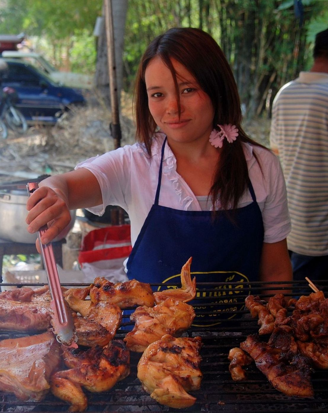 Chicken, pork and eggs being grilled at a small restaurant at the entrance of Huay Kaew waterfall, Chiang Mai, Thailand.